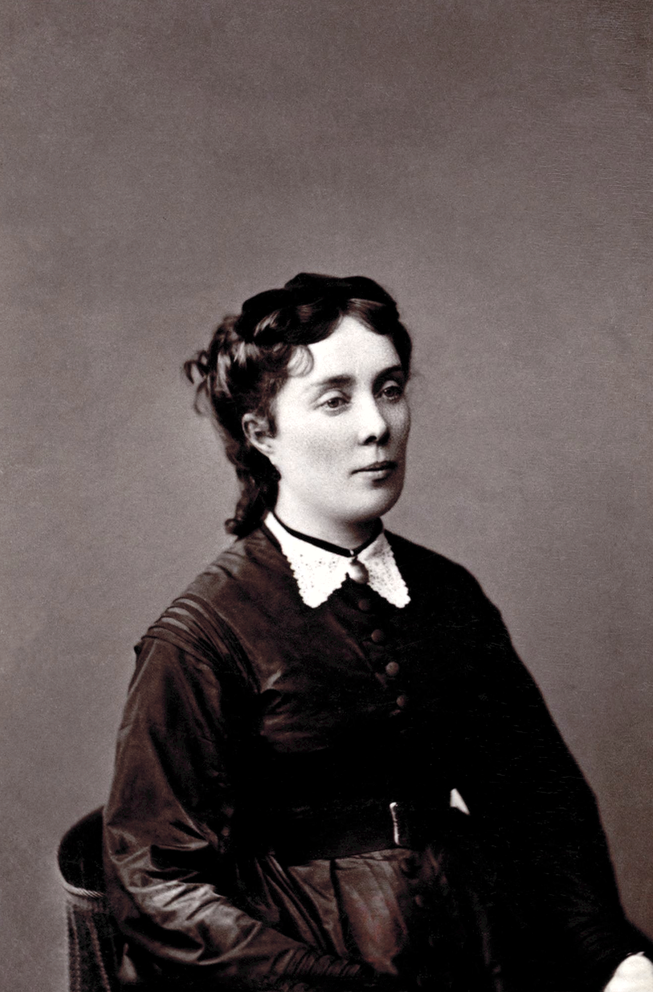 Photograph of Joséphine-Louise Fourès (1834–1891), bookseller and schoolteacher, widow of French journalist and deputy Jean-Baptiste Millière by Nadar.